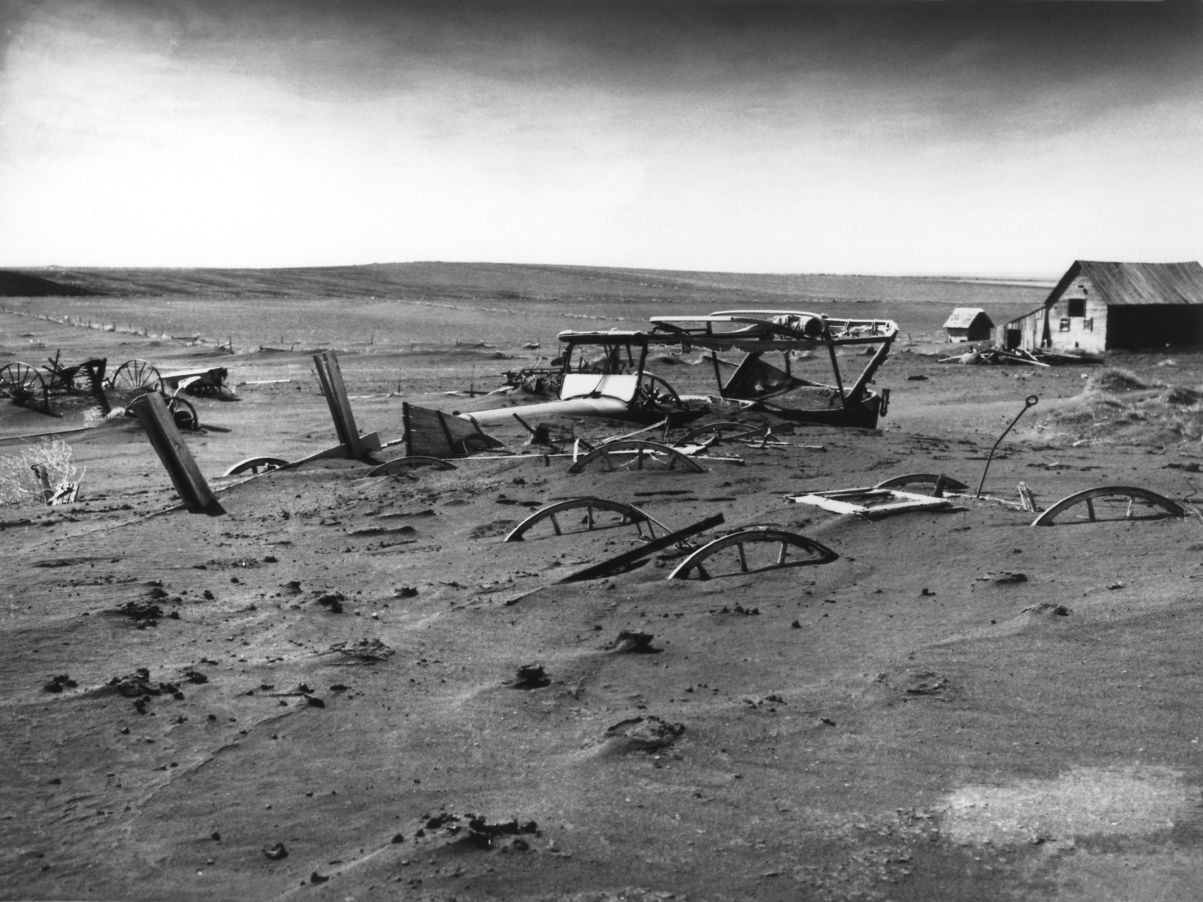 Buried machinery in barn lot in Dallas, South Dakota, United States during the Dust Bowl, an agricultural, ecological, and economic disaster in the Great Plains region of North America in 1936